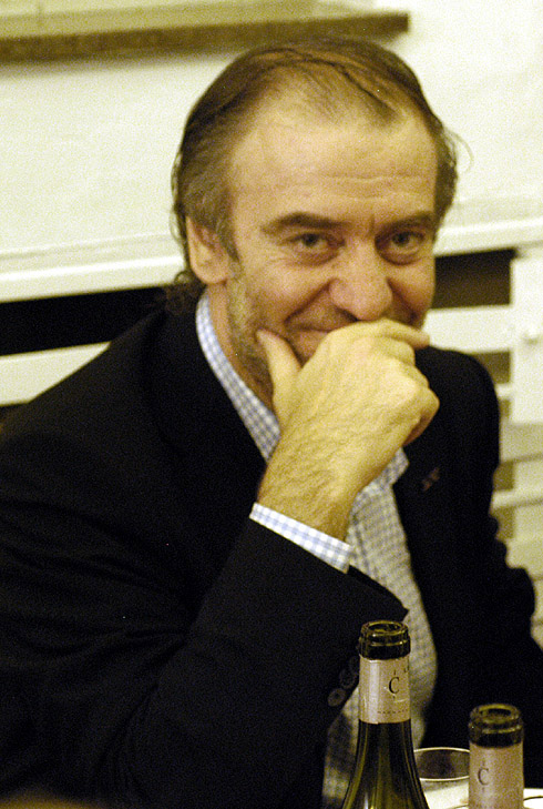 Picture of Mr. Valerie Gergiev. Picture was taken during the KlaraFestival 2007 in the Bozar in Brussels, Belgium. Mr. Gergiev conducted the World Orchestra for Peace. The picture was taken after the concert on Tuesday the 11th of September 2007.